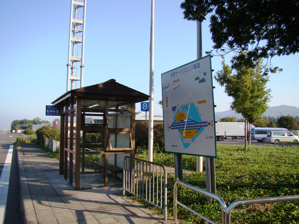 Taga Bus Stop on the Meishin Expressway westbound line in Shiga Prefecture, Japan